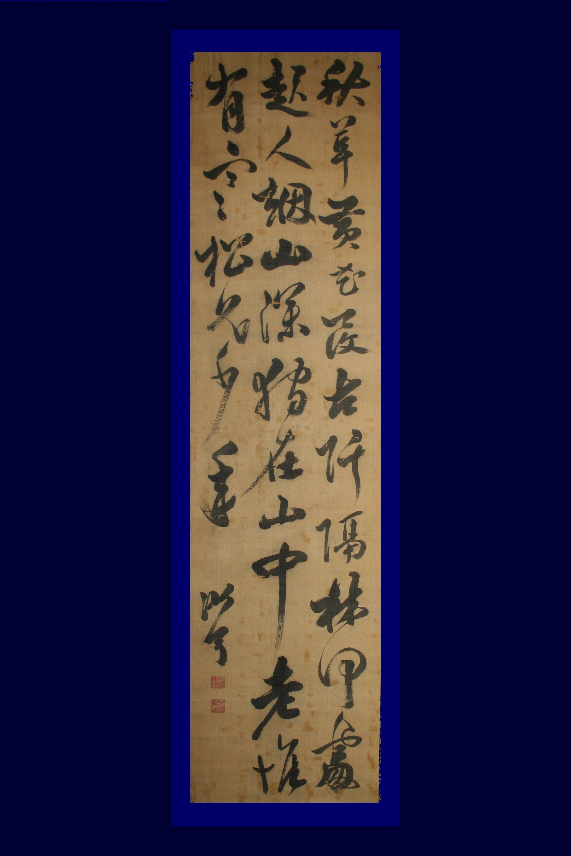 free use